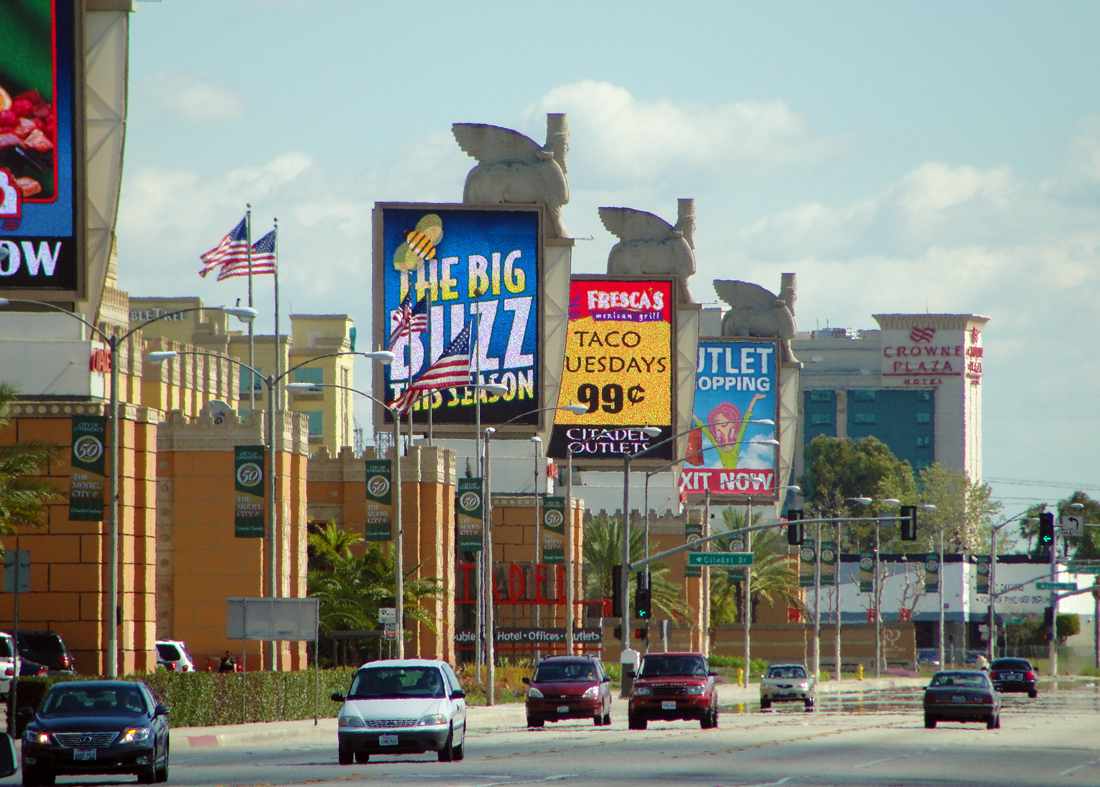 Citadel Outlets and Commerce Casino as seen from Telegraph RD and the Interstate 5 Freeway.